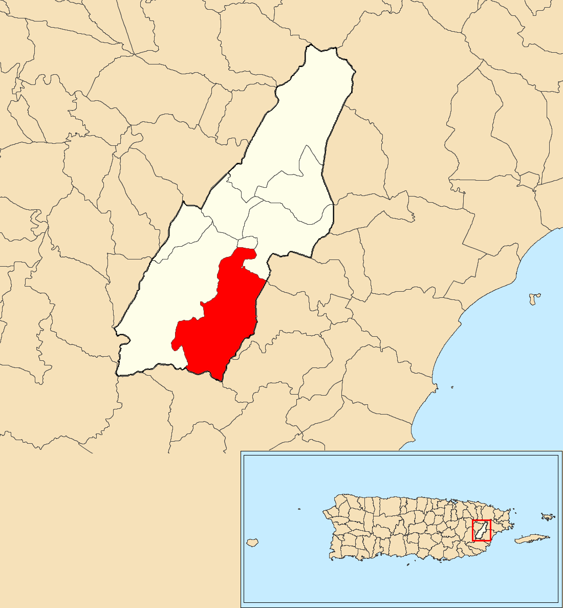 Tejas, Las Piedras, Puerto Rico locator map